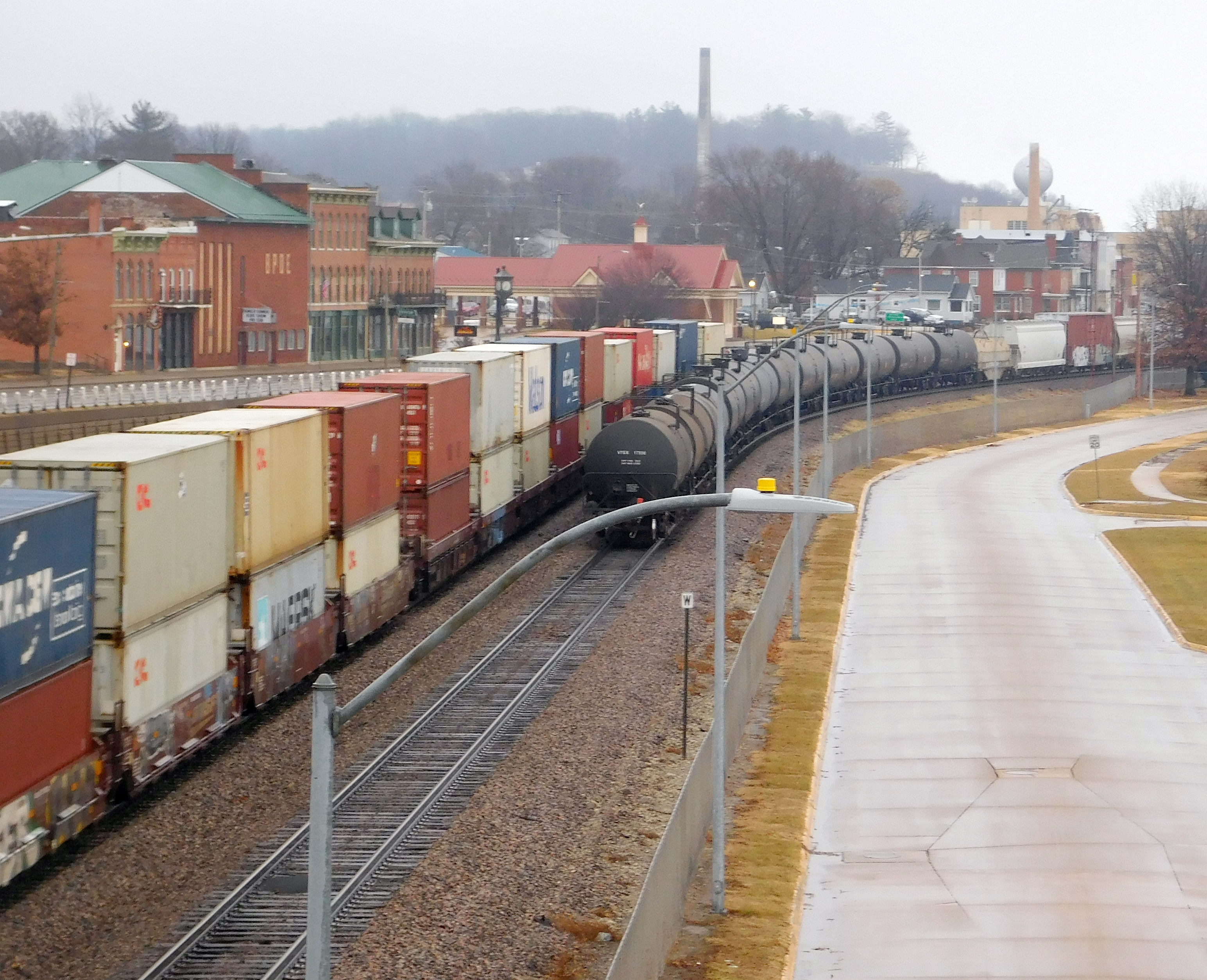 Train yard in Fort Madison, Iowa.